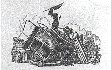 Illustration by Kardovsky for Turgenev novel «Rudin». Rudin at the barricades